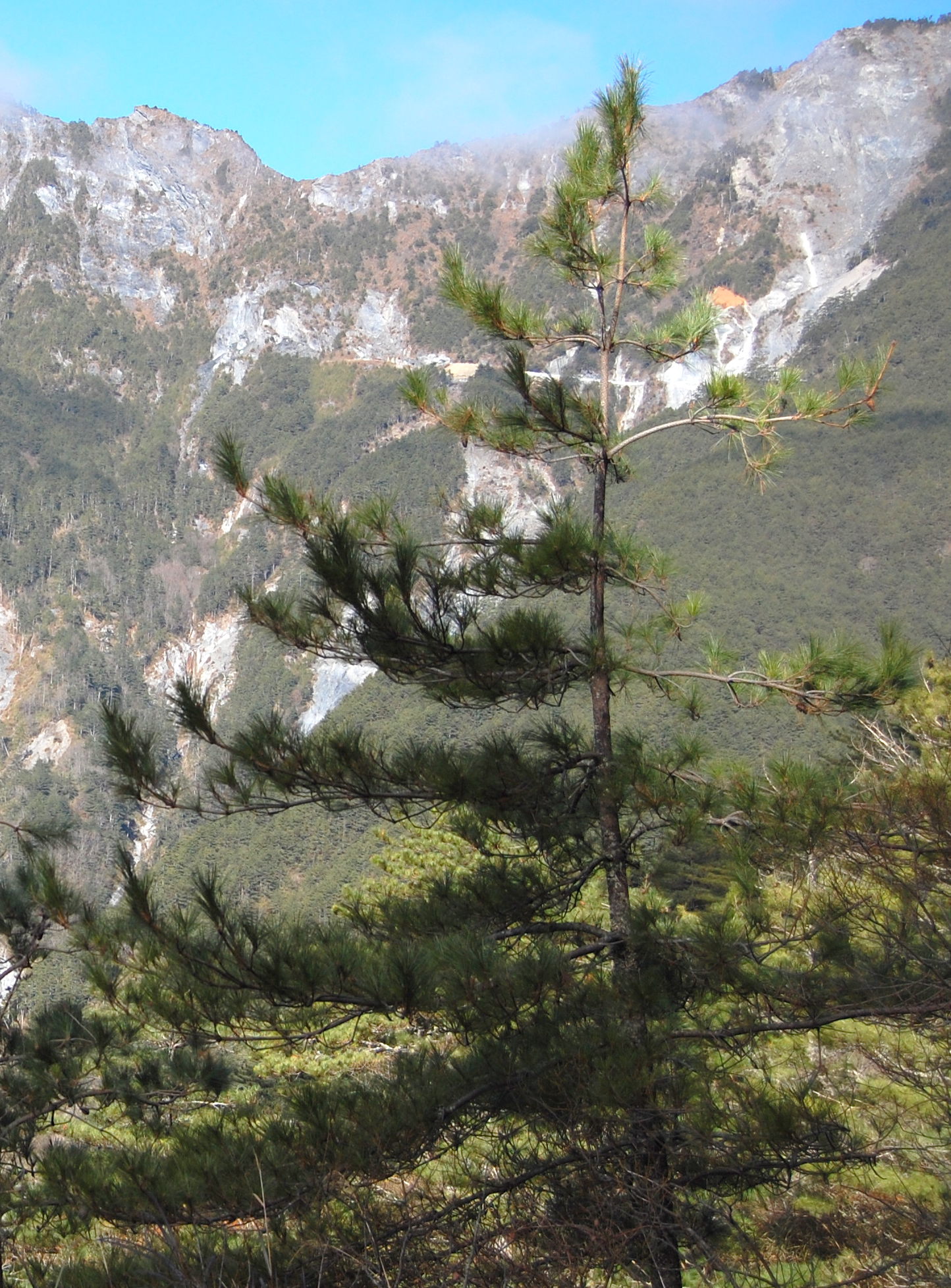 Pinus taiwanensis top of a young tree, south cross-island highway, Taiwan.